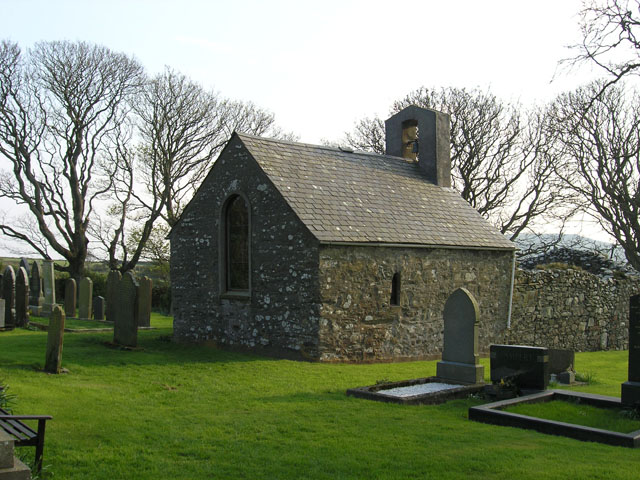 Old Lonan (St Adamnan's) church. Although replaced by a less-isolated church nearer Laxey, the building in its peaceful location is still in regular use